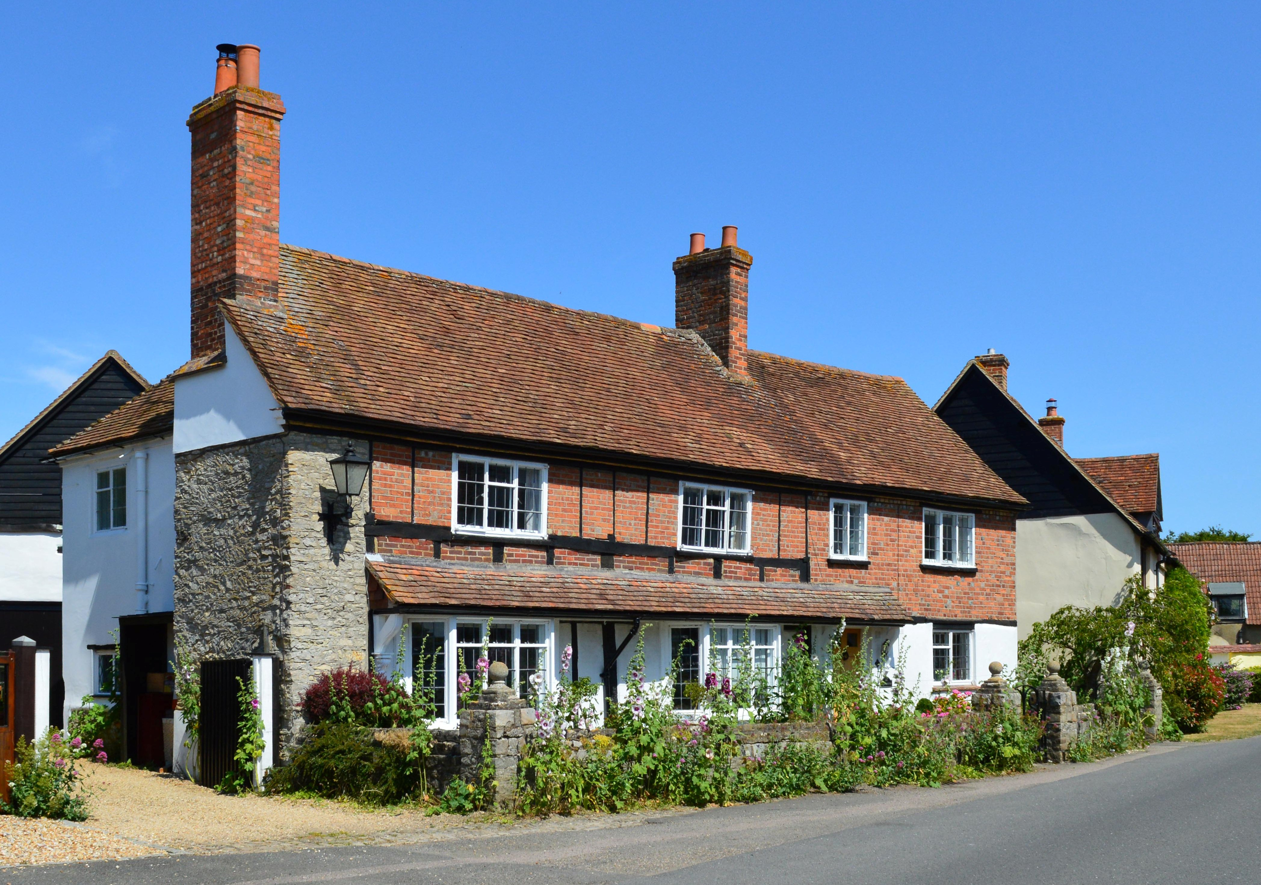 Top Barn, 14 Church End, Haddenham, Buckinghamshire, seen from the southwest